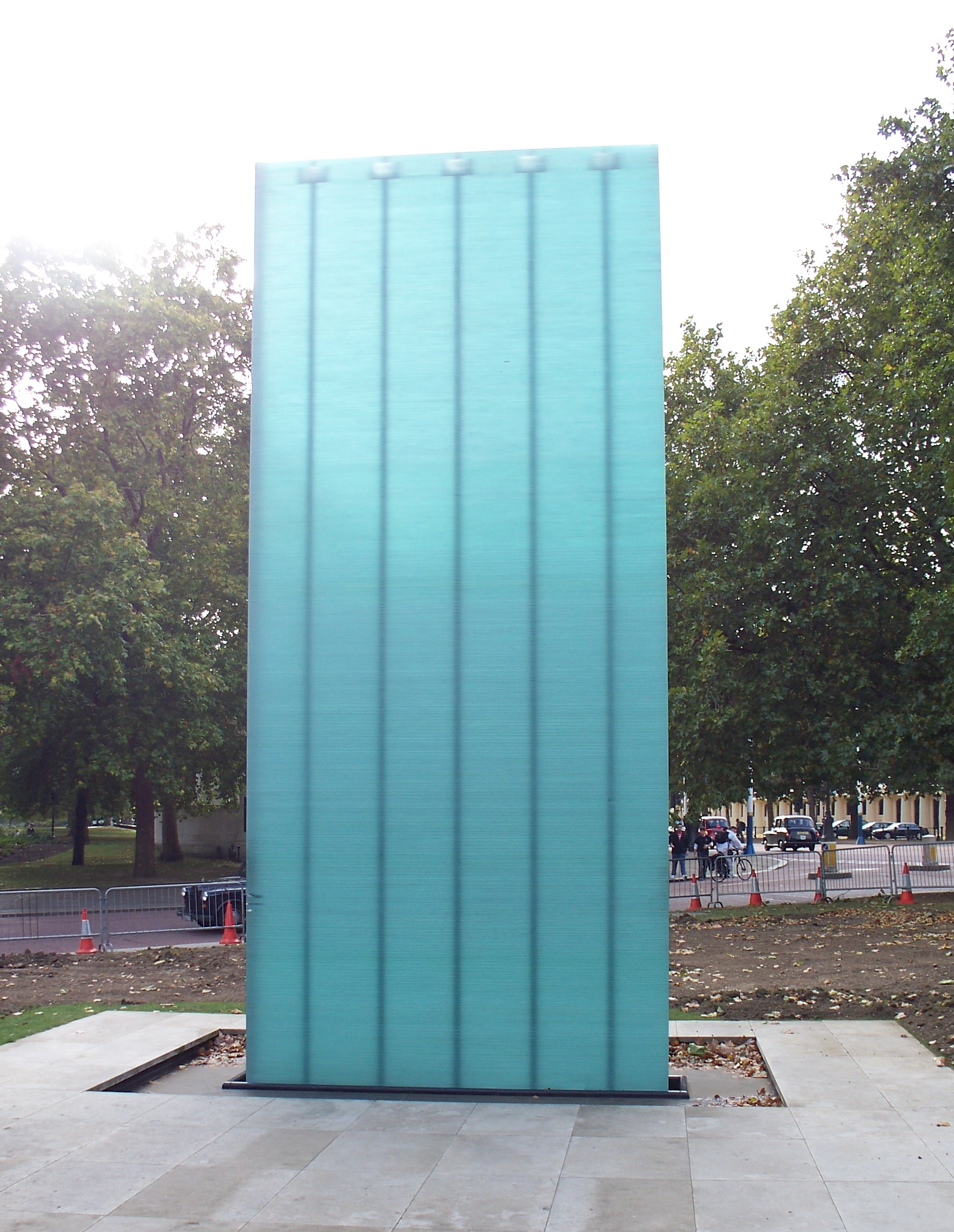 Glass column; detail from the National Police Memorial, London